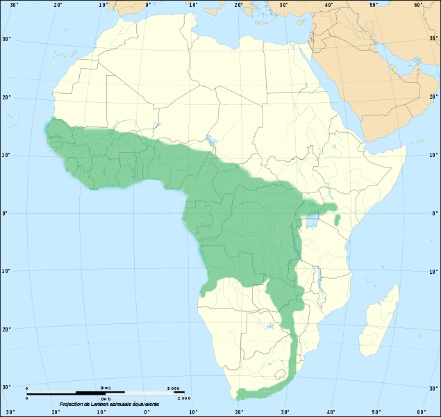 Distribution of the Forest cobra (Naja melanoleuca).